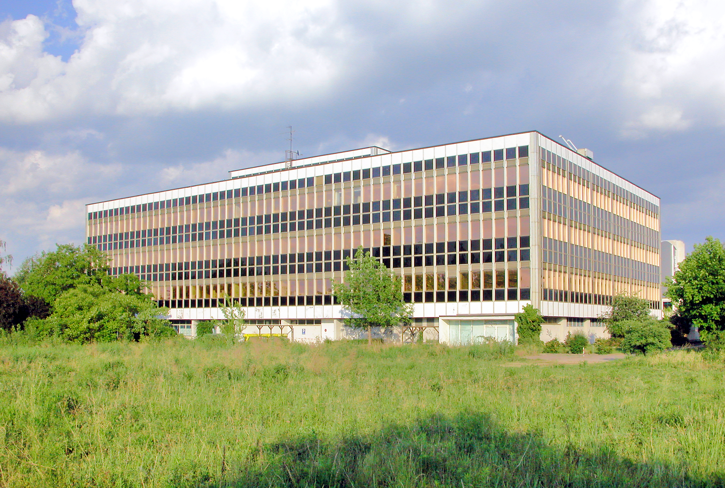 02.06.2009 01237 Dresden-Dobritz, Mügelner Straße 36 / Ecke Moränenende: Das sogenannte "Konstruktionsgebäude" (GMP: 51.010429,13.807806) des VEB Mikromat Dresden, Mügelner Straße 36, seinerzeit Wahrzeichen des Betriebes, ist ein Beispiel für die Architektur des Industriebaus der 1970er Jahre in der DDR. Das Gebäude wurde von 1970 bis 1973 nach Plänen der Architekten Willi Fieting, Hans-Jürgen Katzig und Karl-Heinz Perschel errichtet. Hier bereits Leerstand. In der DDR-Zeit erstreckte sich das Areal des VEB Mikromat Dresden zwischen Niedersedlitzer Straße, Dobritzer Straße und Langer Weg. Sicht von Südwesten. [DSCN37765.TIF]20090602090DR.JPG(c)Blobelt